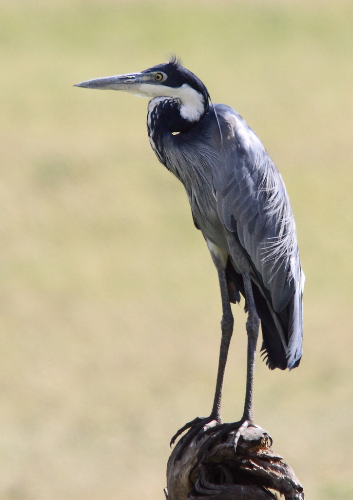 A Black-headed Heron in Maasai Mara, Kenya.